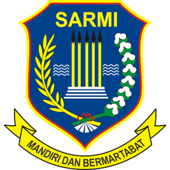 Lambang (Coat of Arms) of Kabupaten (Regency) Sarmi, Papua Province, Indonesia